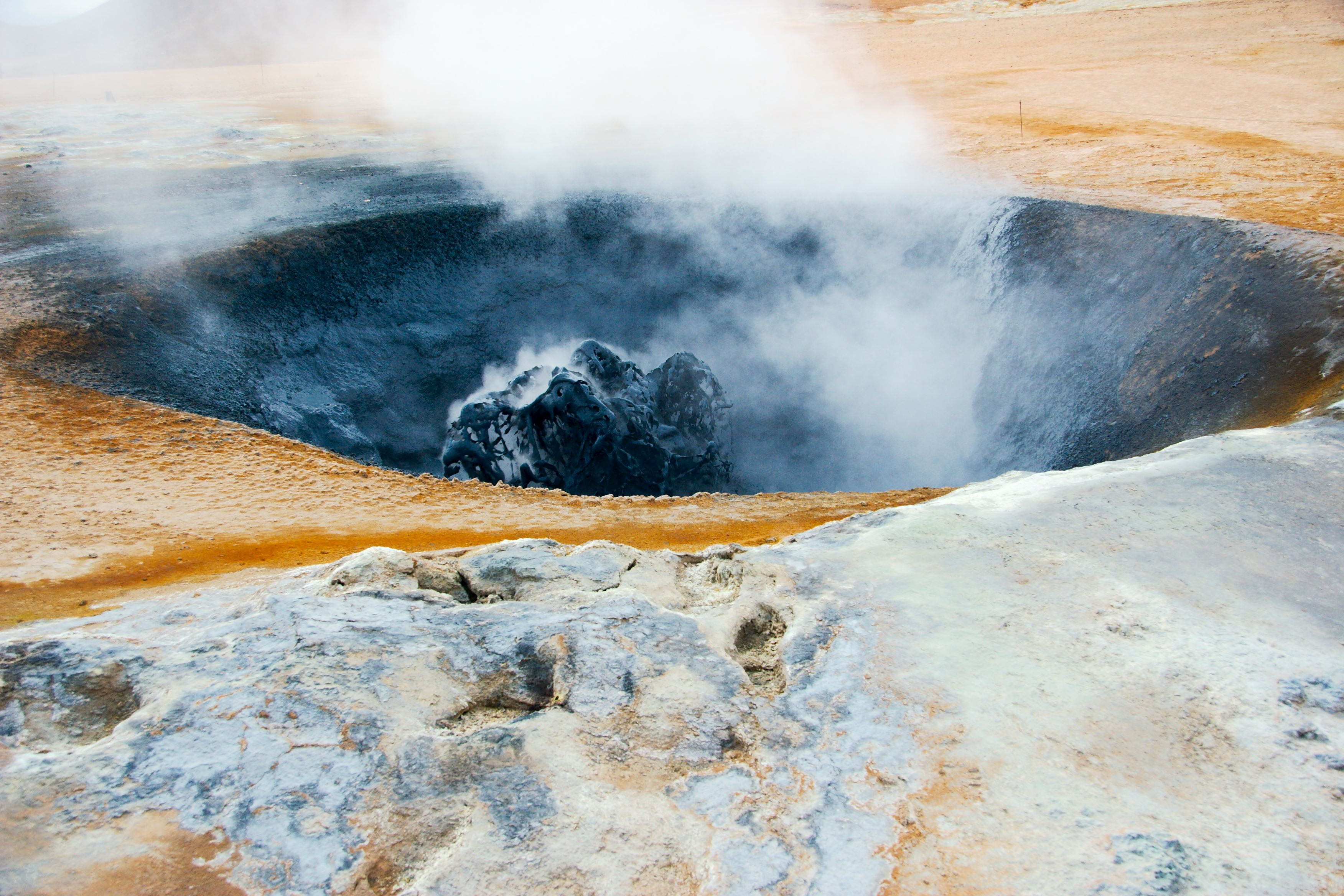 Mudpool at Hverir, Iceland.